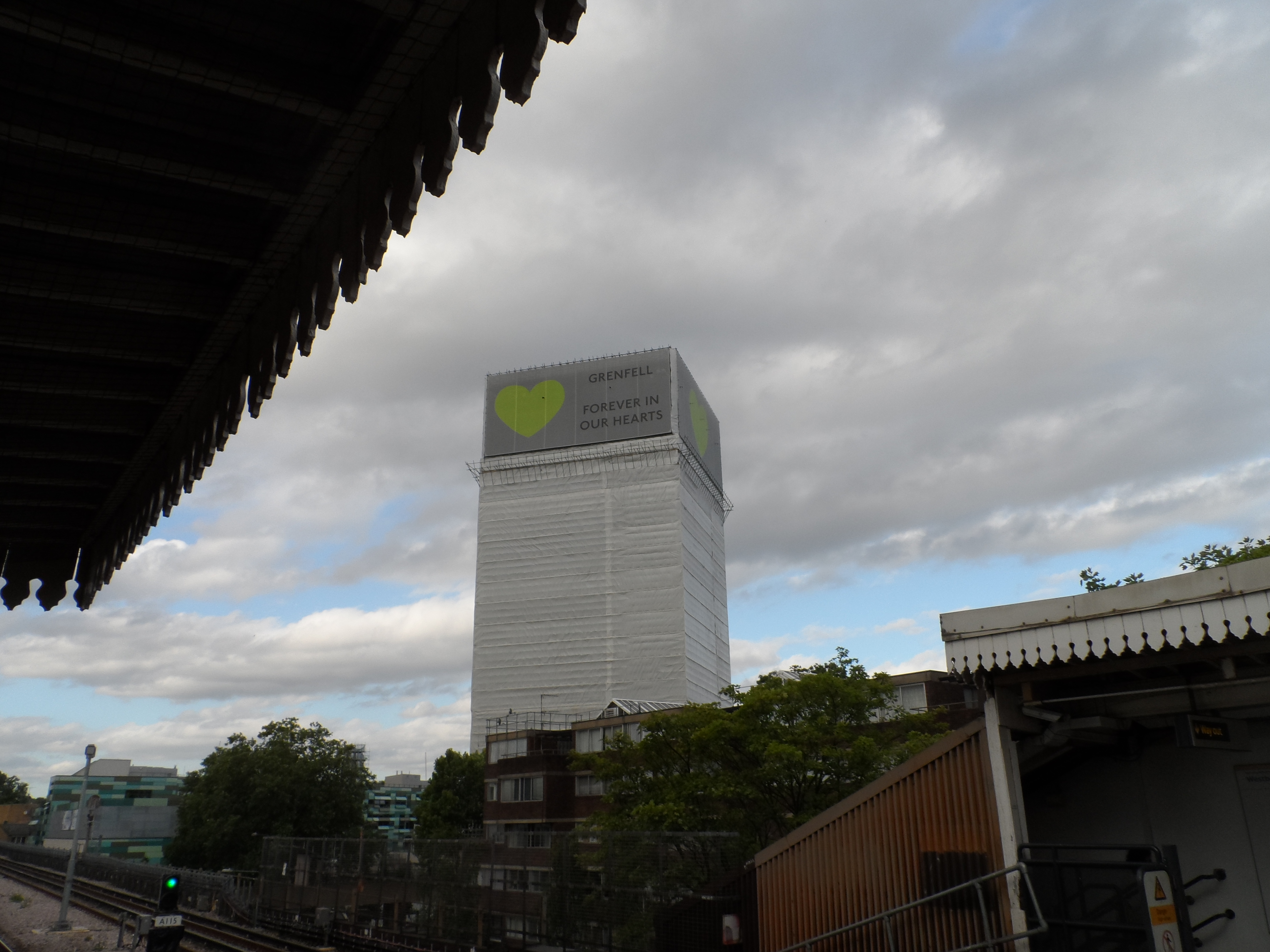 Grenfell Tower with banners at the top with heart symbol and the wording "Grenfell Forever In Our Hearts" in June 2018. The topping out of the protective sheeting and scaffolding took place in time for the 1-year anniversary of the Grenfell Tower Fire.